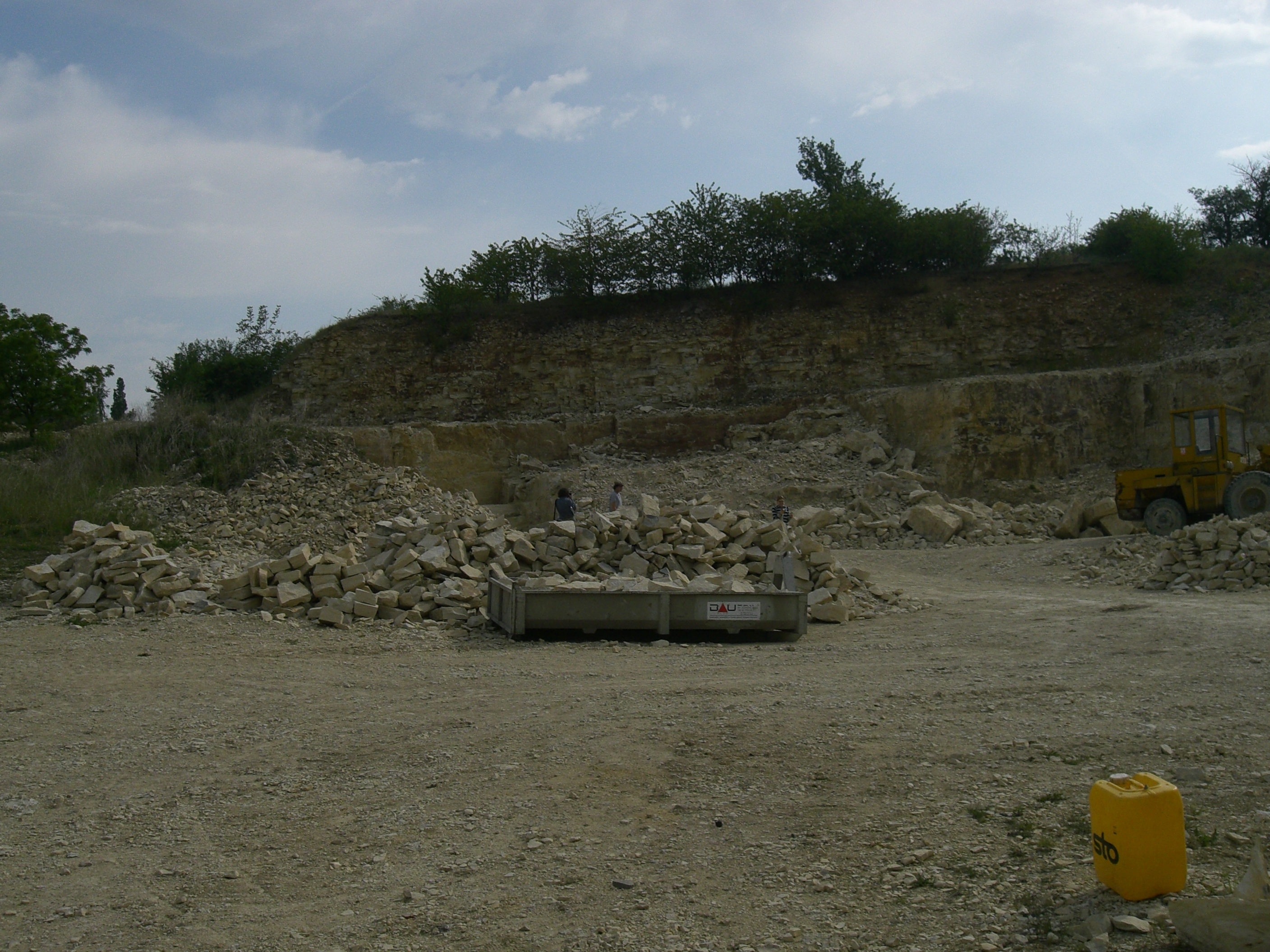 Opuka mine near Přední Kopaniny, Czech Republic.